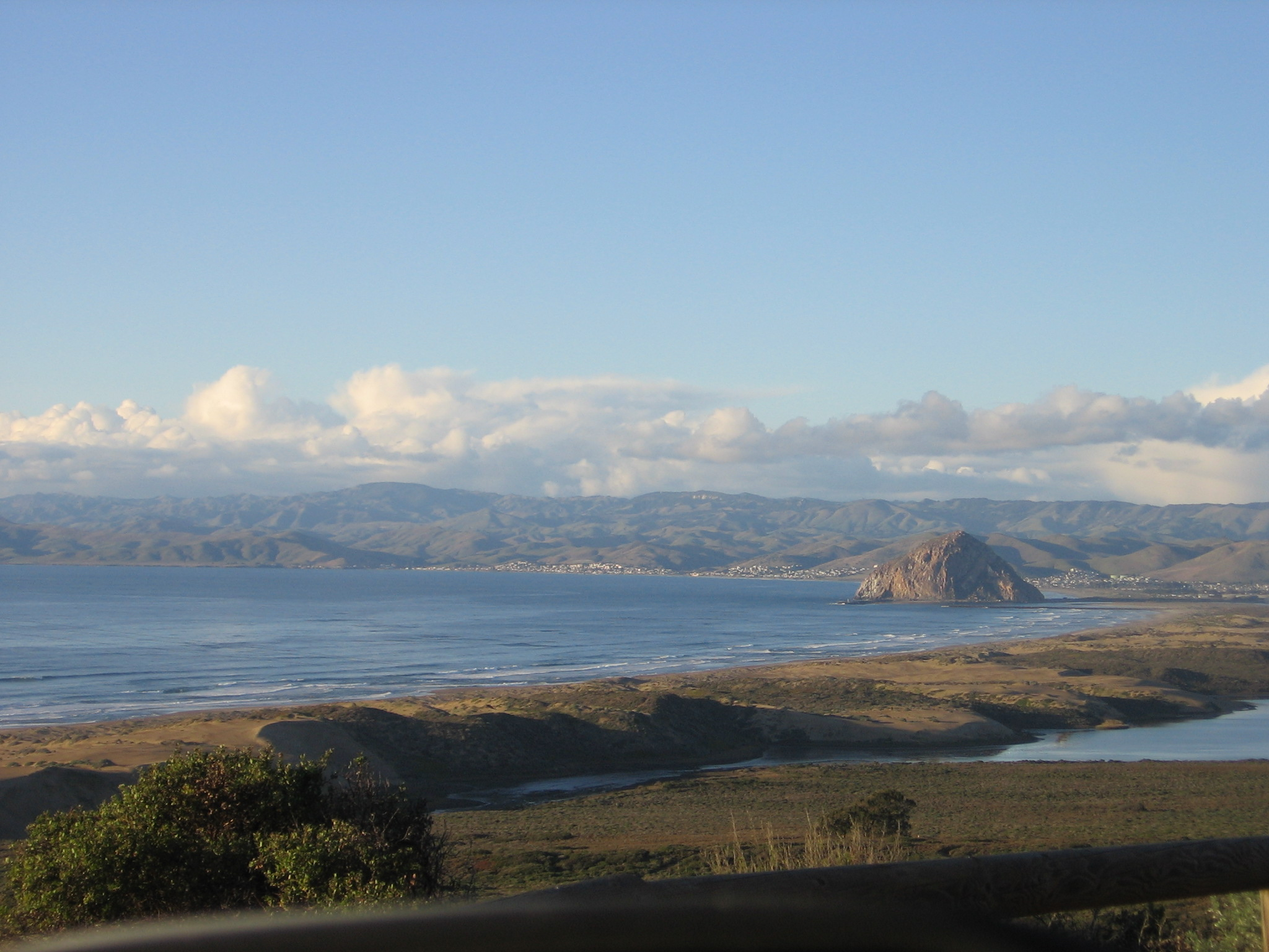 A view of Morro Rock from the south looking north. It was taken near the entrance of Montaña de Oro State Park, California, USA.